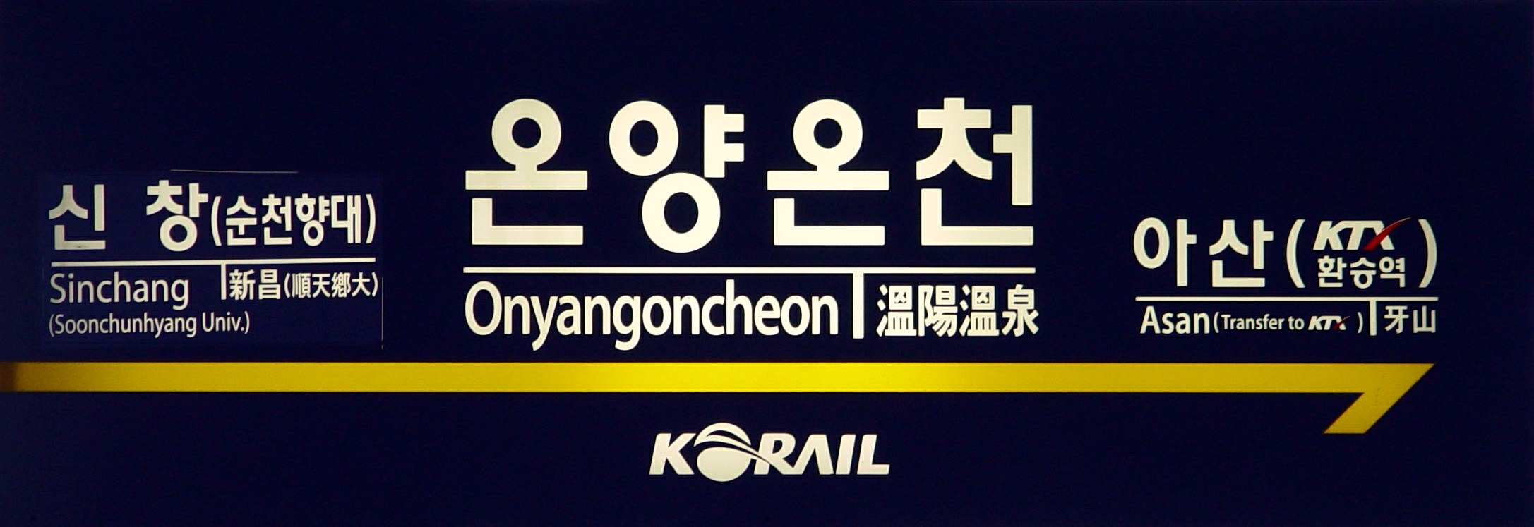 Onyang Oncheon Station Platform Sign